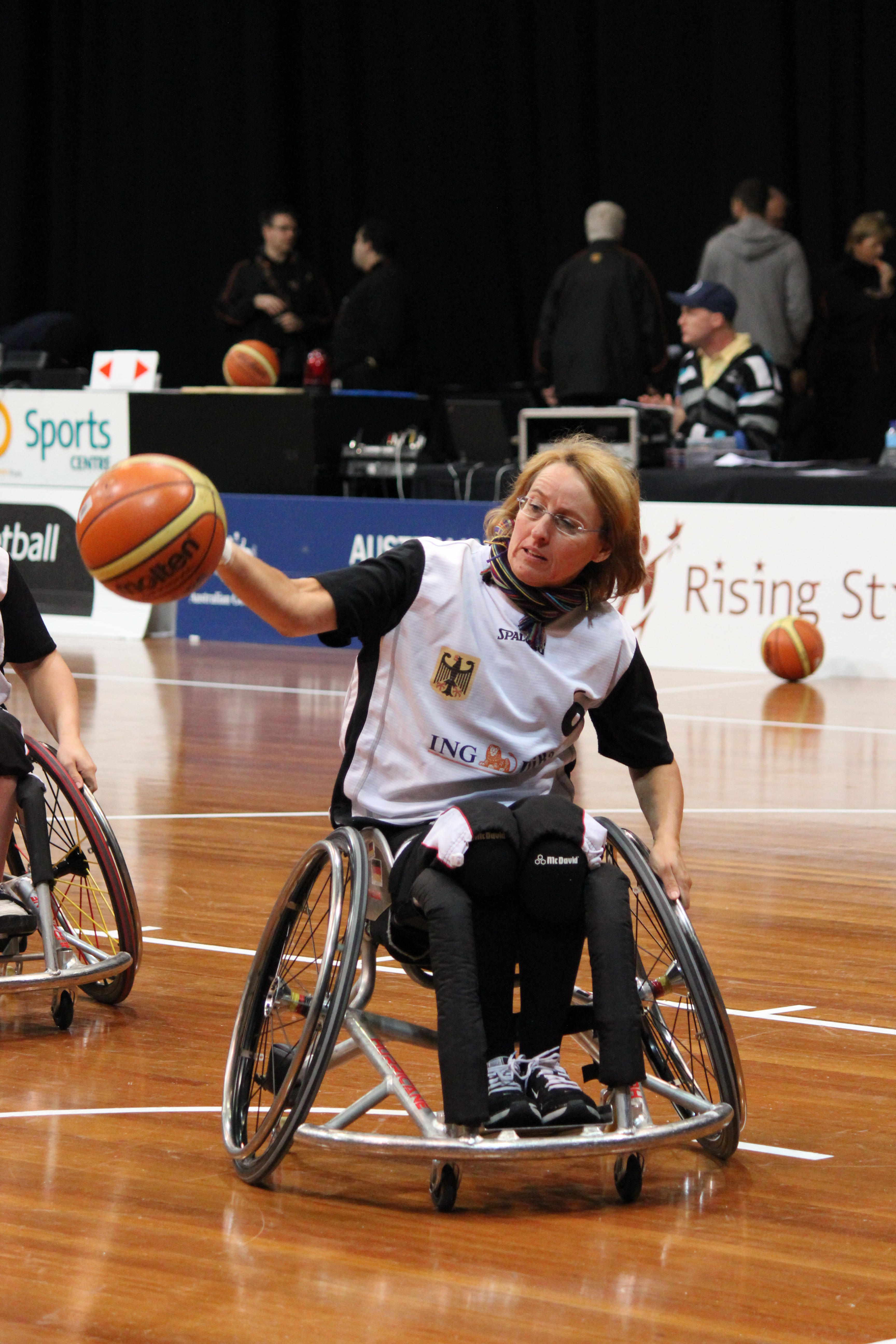 Germany women's national wheelchair basketball team at a basketball competition in July 2012 in Sydney.